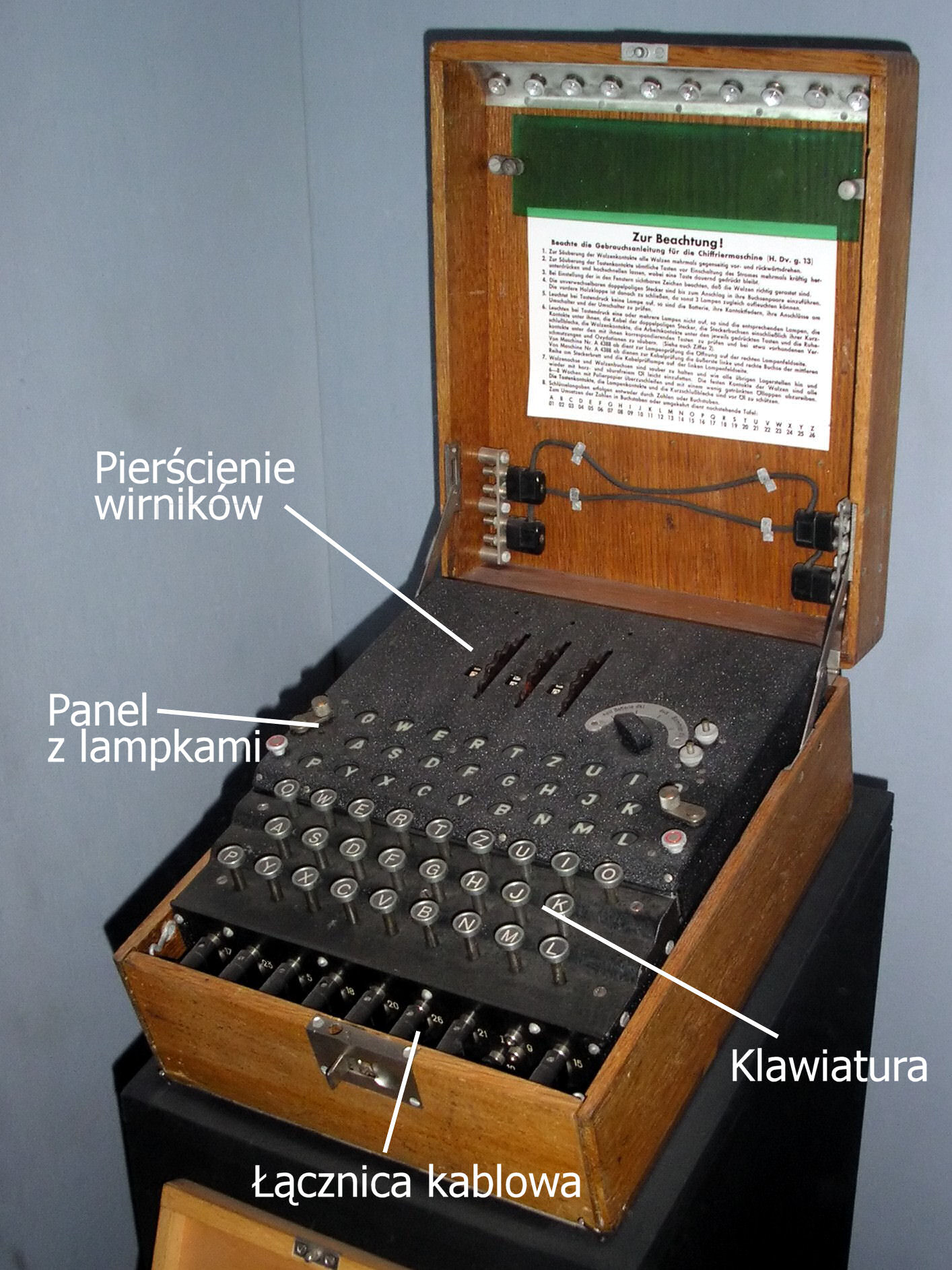 Polish labels for Image:EnigmaMachine.jpg.